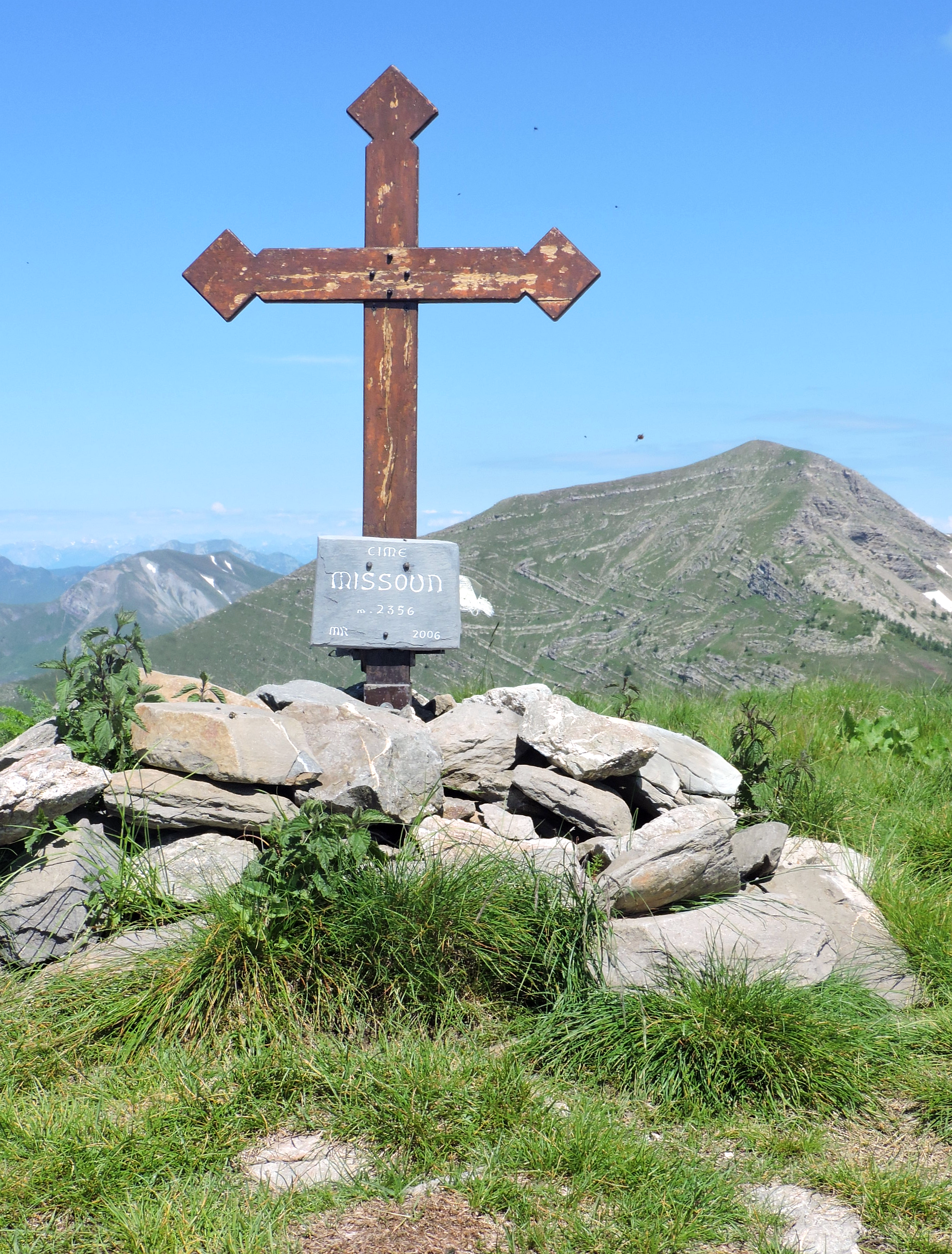 Cime Missoun (Ligurian Alps): summit cross; Mount Bertrand in the bacground